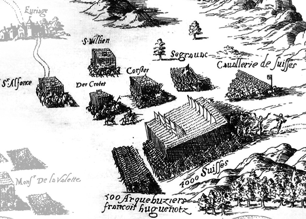 map representing positions during a battle